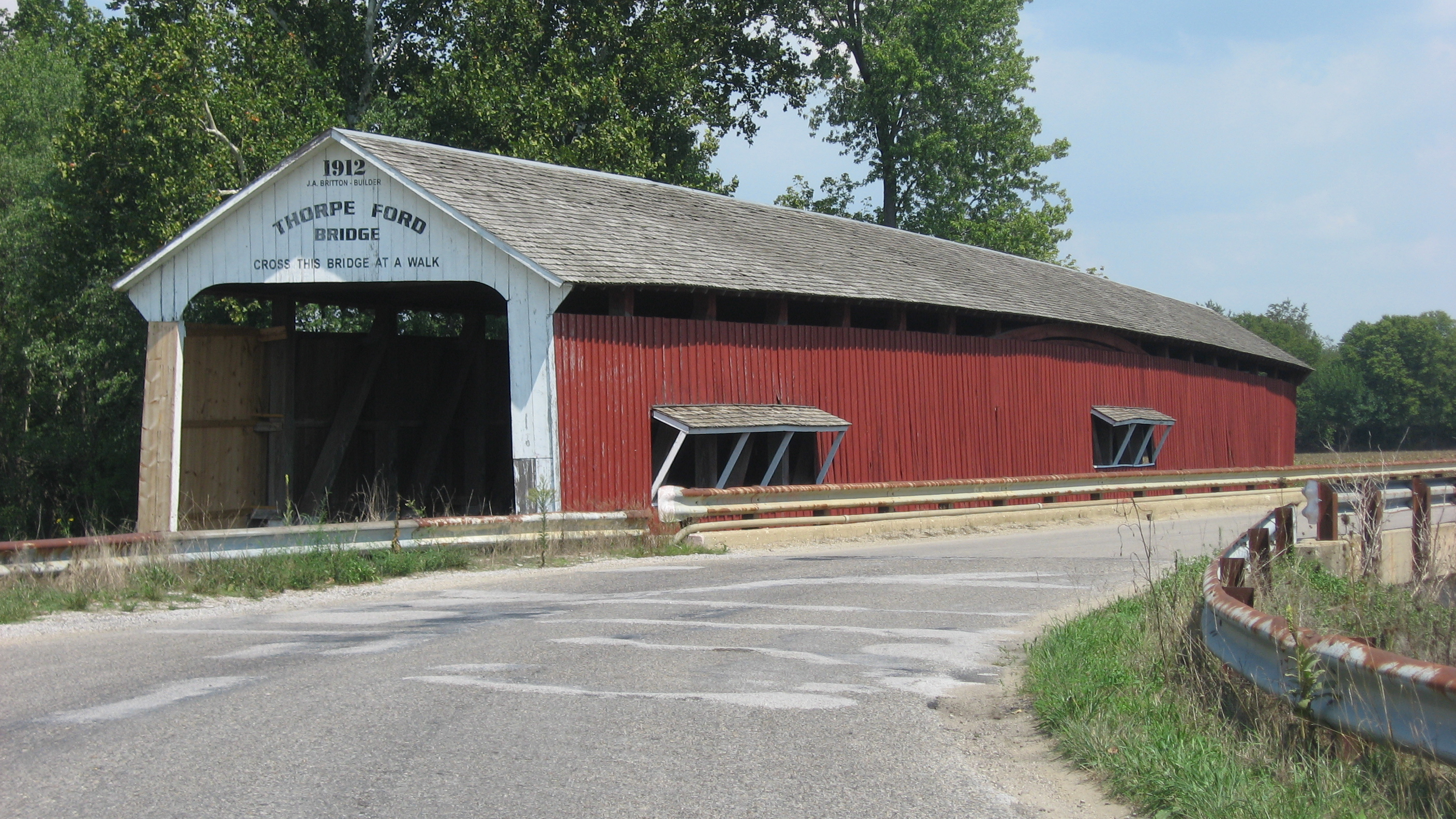 Western portal and southern side of the Thorpe Ford Covered Bridge, which spans Big Raccoon Creek northeast of Roseville in Florida Township, Parke County, Indiana, United States. Built in 1912, it is listed on the National Register of Historic Places.